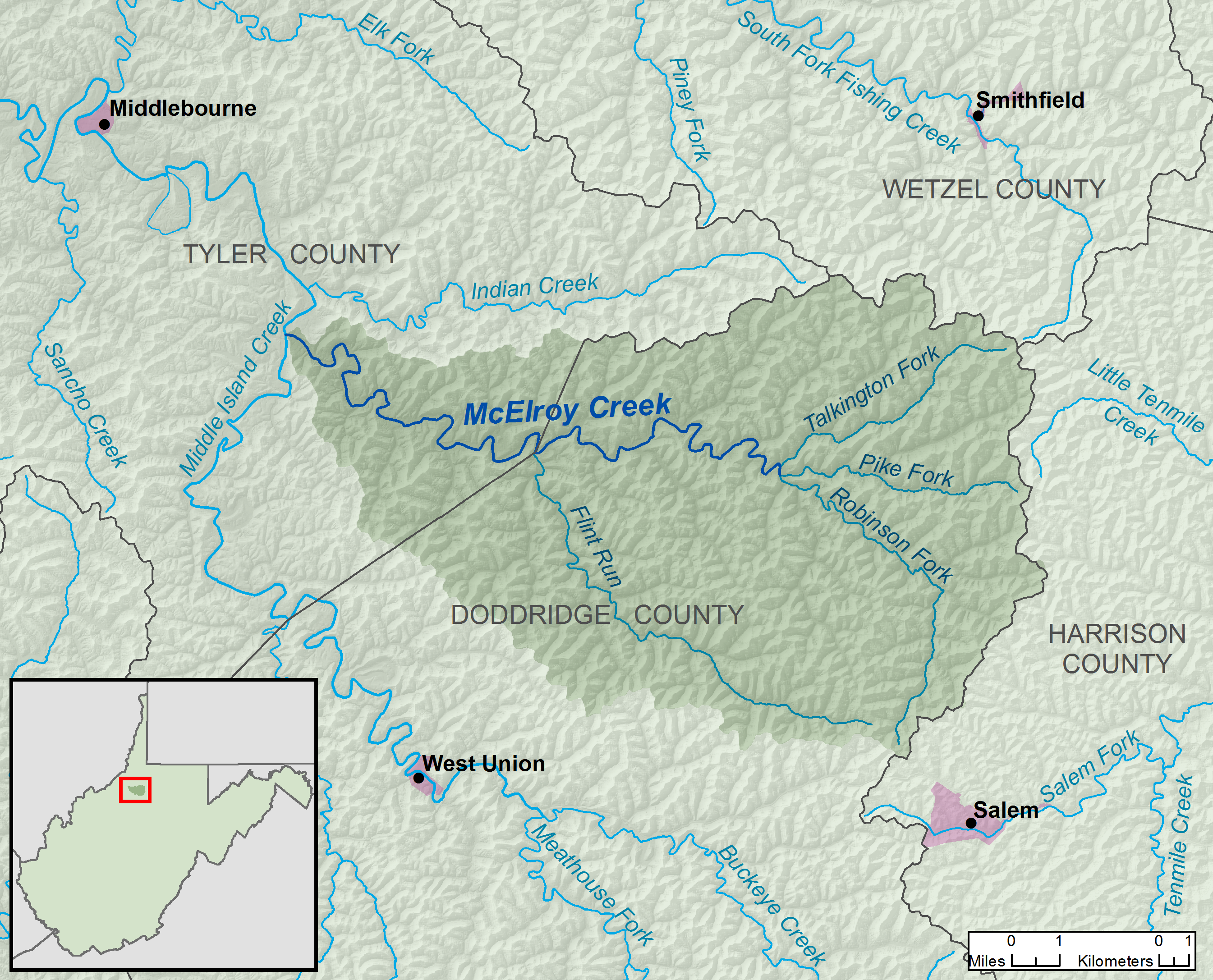 A map of McElroy Creek and its watershed (USGS HUC-10 code 0503020103), in Doddridge and Tyler counties in West Virginia.